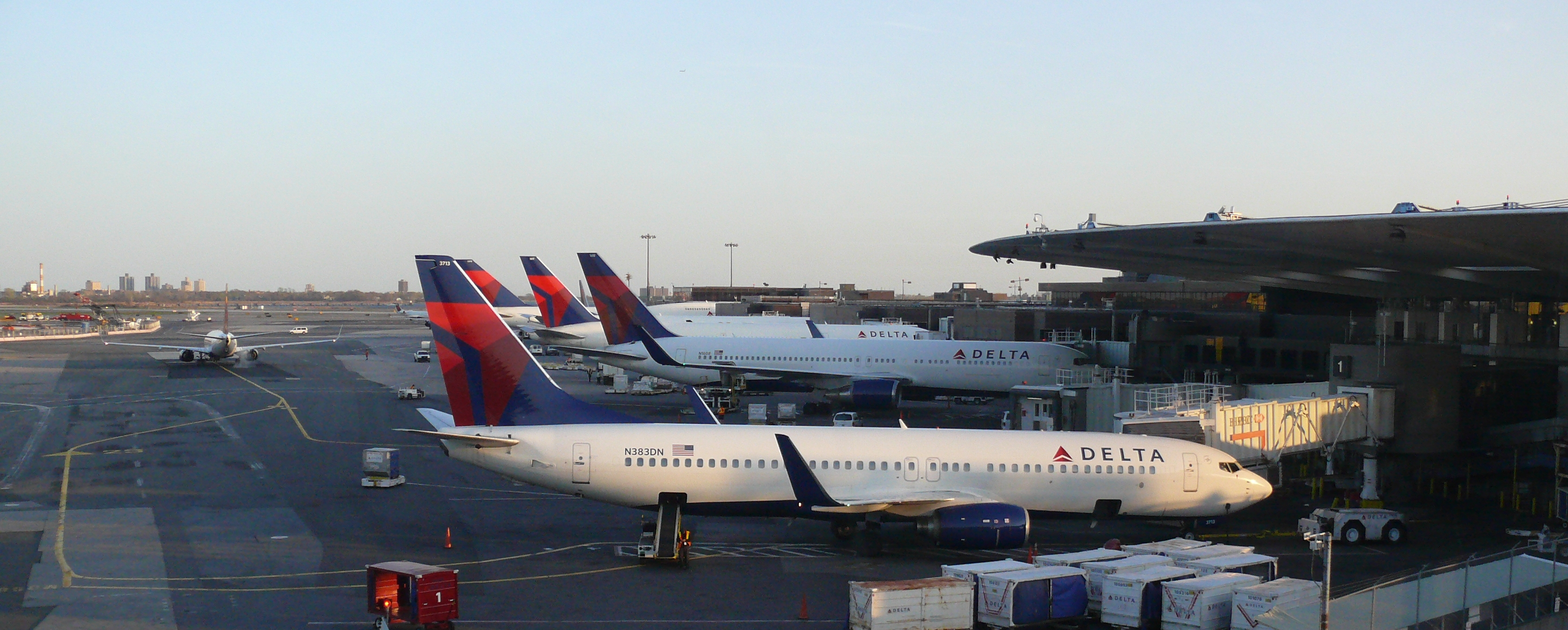 Delta Air Lines Boeing 737-832 N383DN (cn 30346) JFK terminal 3.